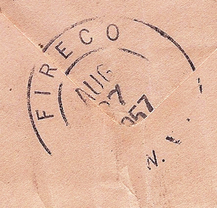 scanned correspondence